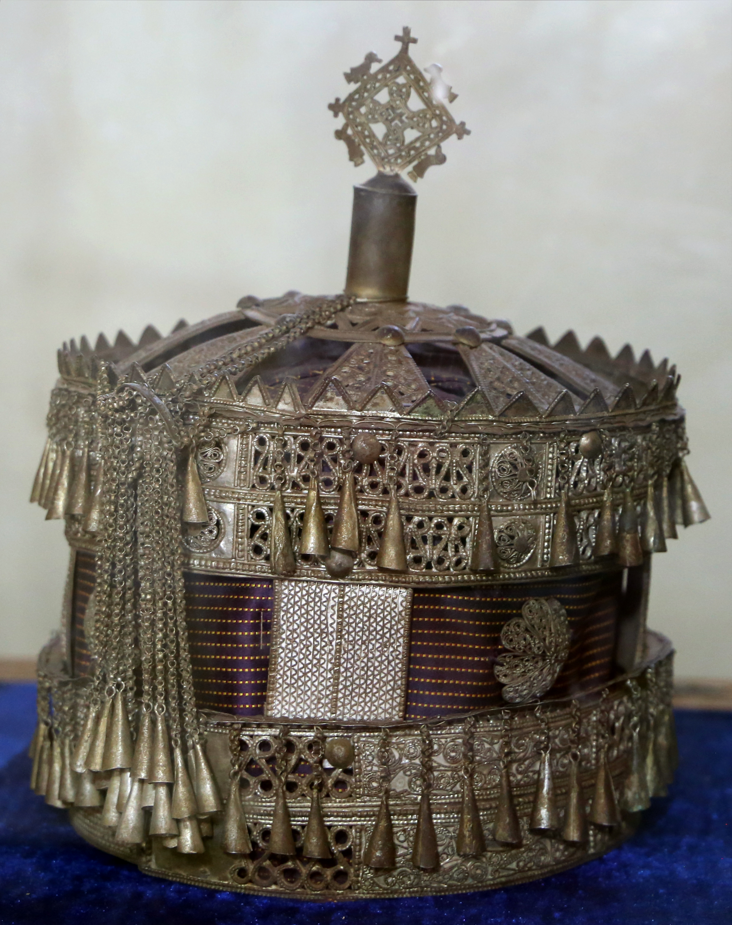 Ura Kidane Mehret - Museum